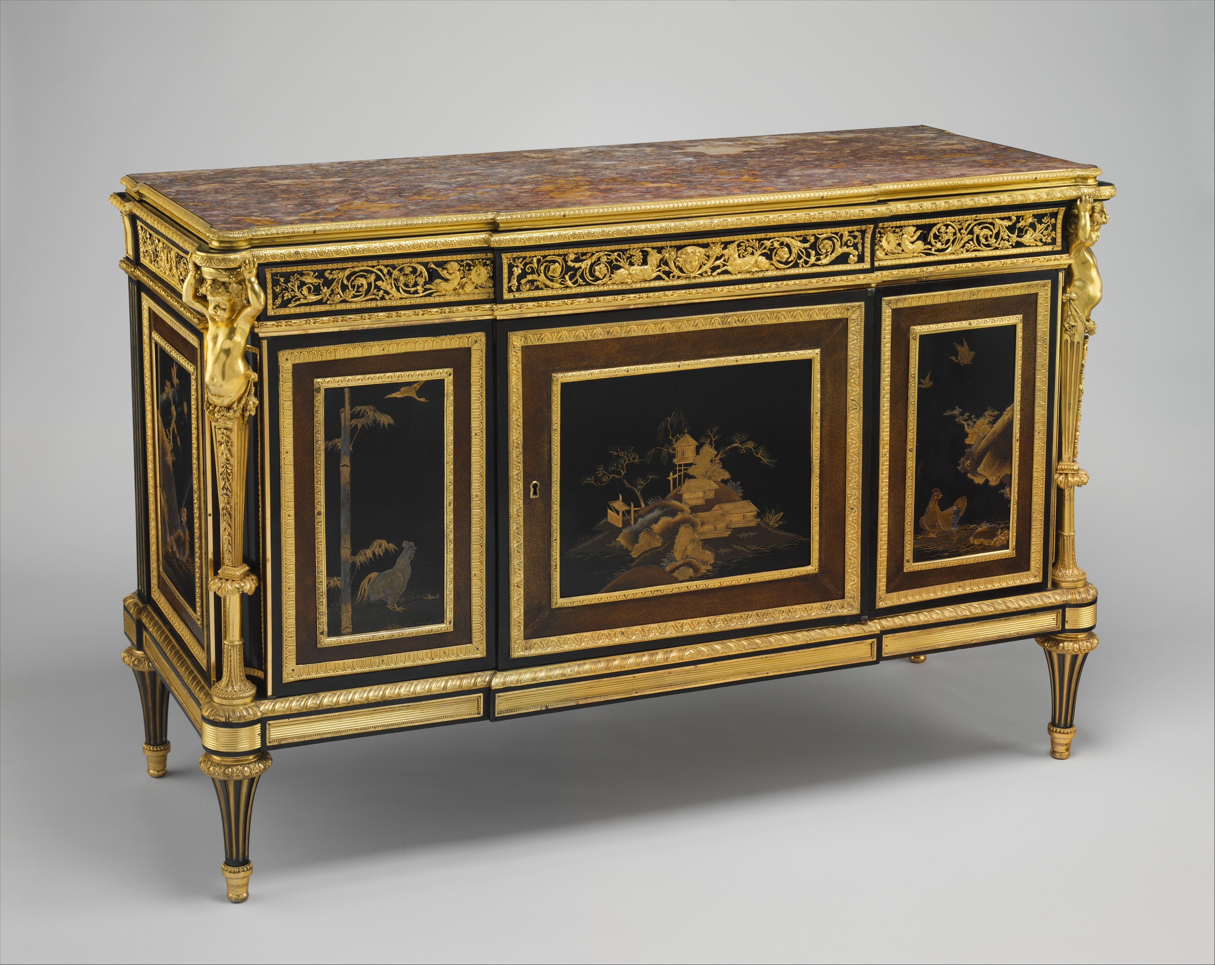 French, Paris; Commode; Woodwork-Furniture